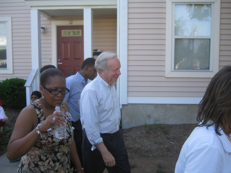 Joseph Lieberman during his reelection campaign as a Connecticut Senator on a third party ticket.